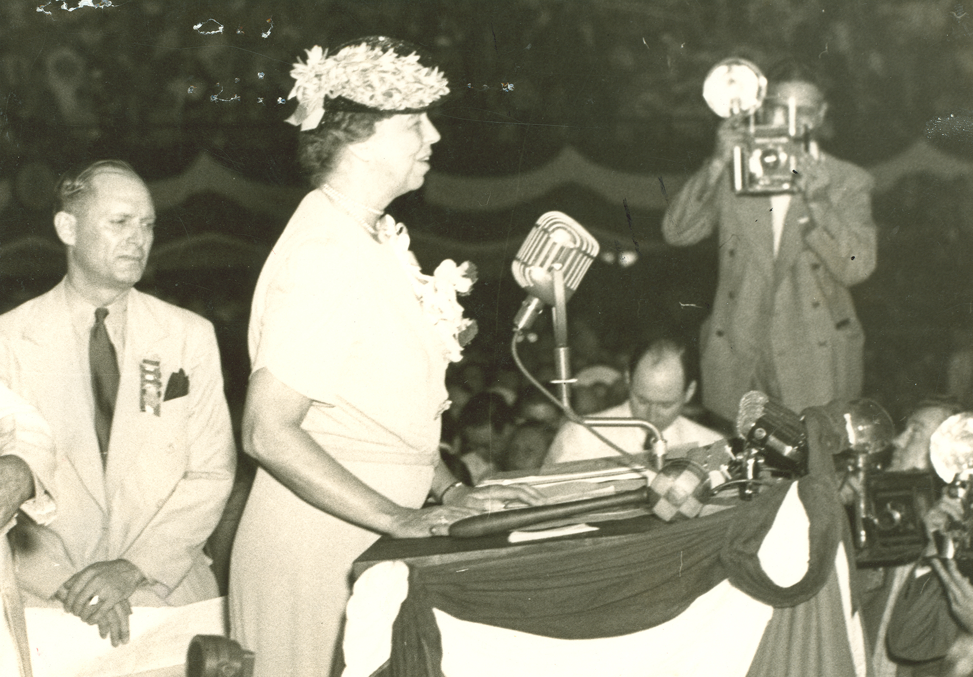 Eleanor Roosevelt addresses Democratic National Convention, Chicago, Illinois. July 18, 1940.